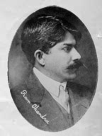 Ram Chandra Bhardwaj, Indian revolutionary and member of Ghadar Party